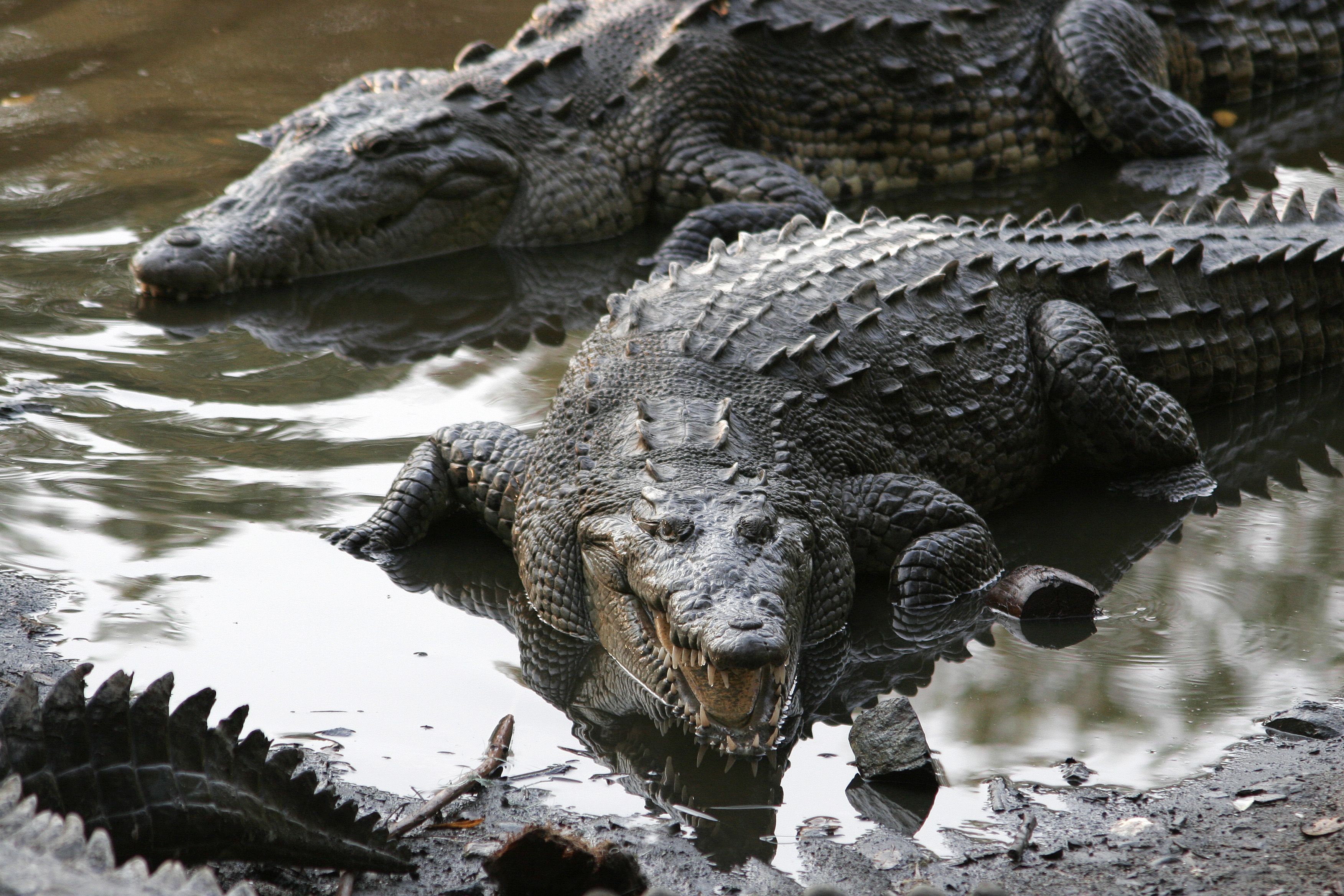 Crocodylus acutus. Photo taken at swamp in the state of Jalisco, Mexico